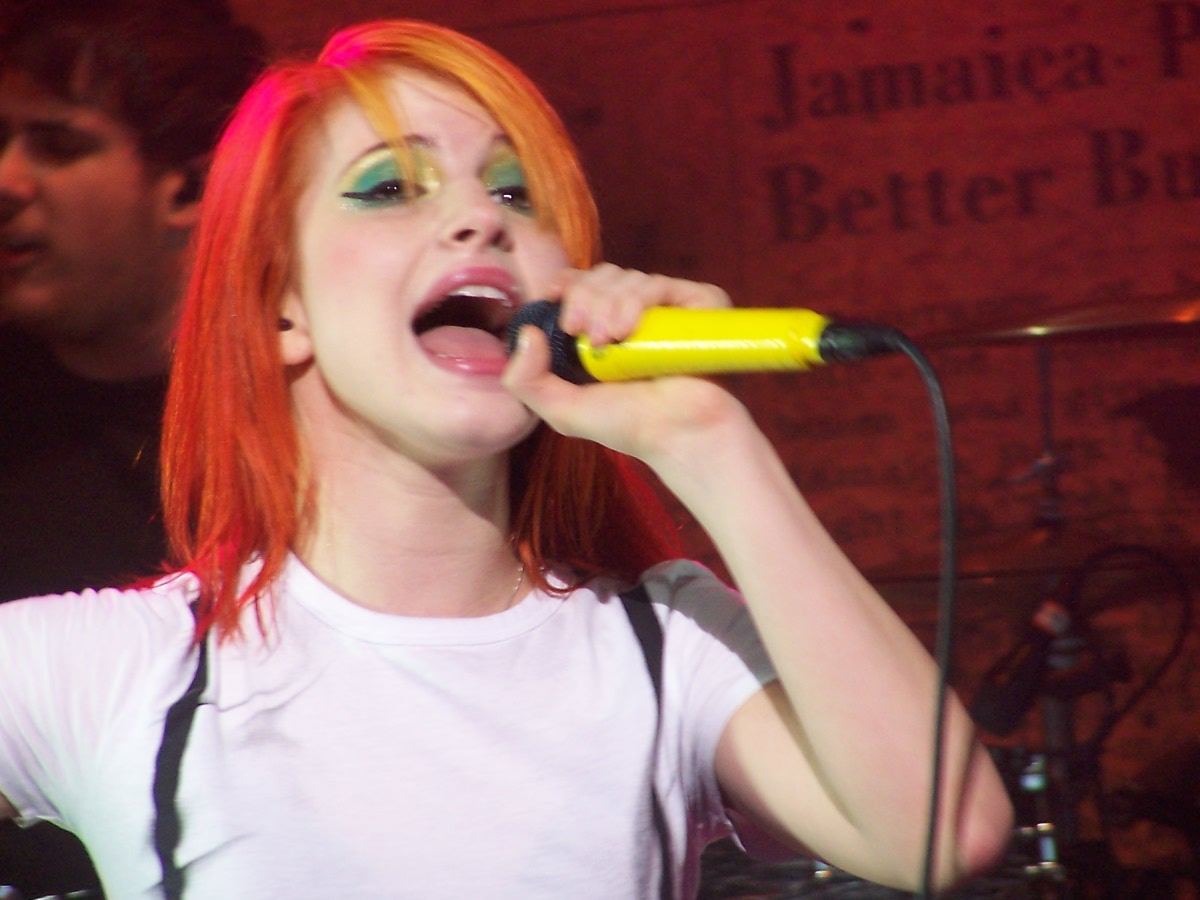 Paramore opening of the show No Doubt in General Motors Place.